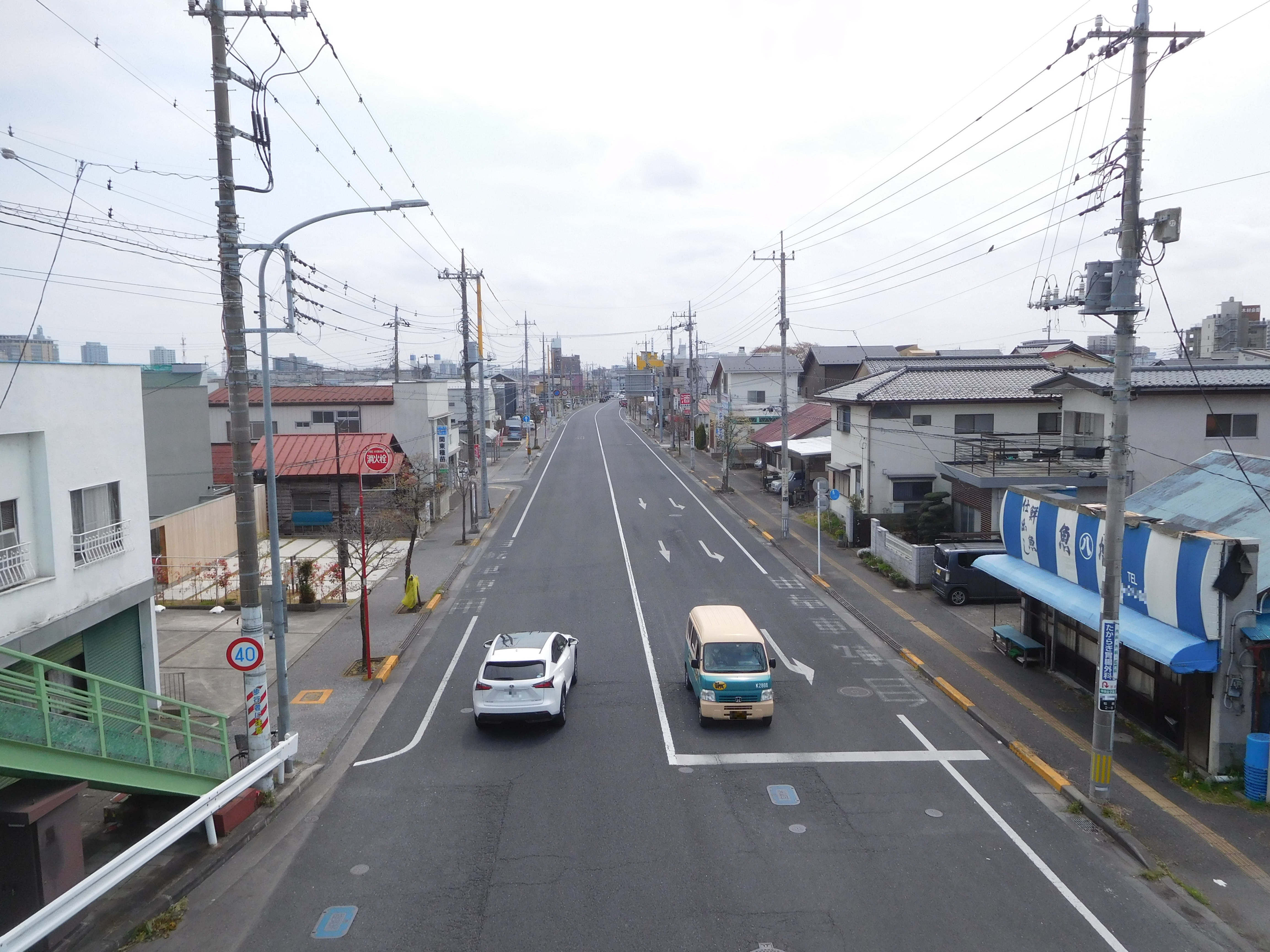 This is Kiyosumi-cho street view from Tomatsuri Ohashi Pedestrian Bridge (Matsubara 3 chome intersection) in Utsunomiya, Tochigi, Japan.